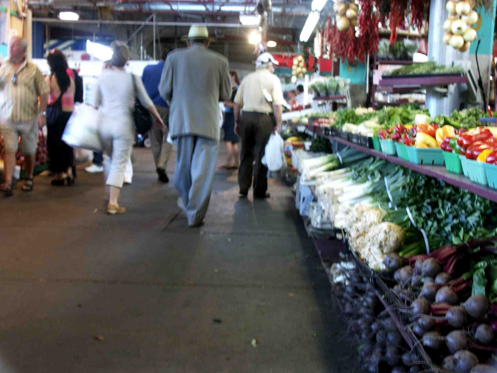 An inside view of Marché Jean-Talon in Montréal, September 2005. Photo by User:Gene.arboit.